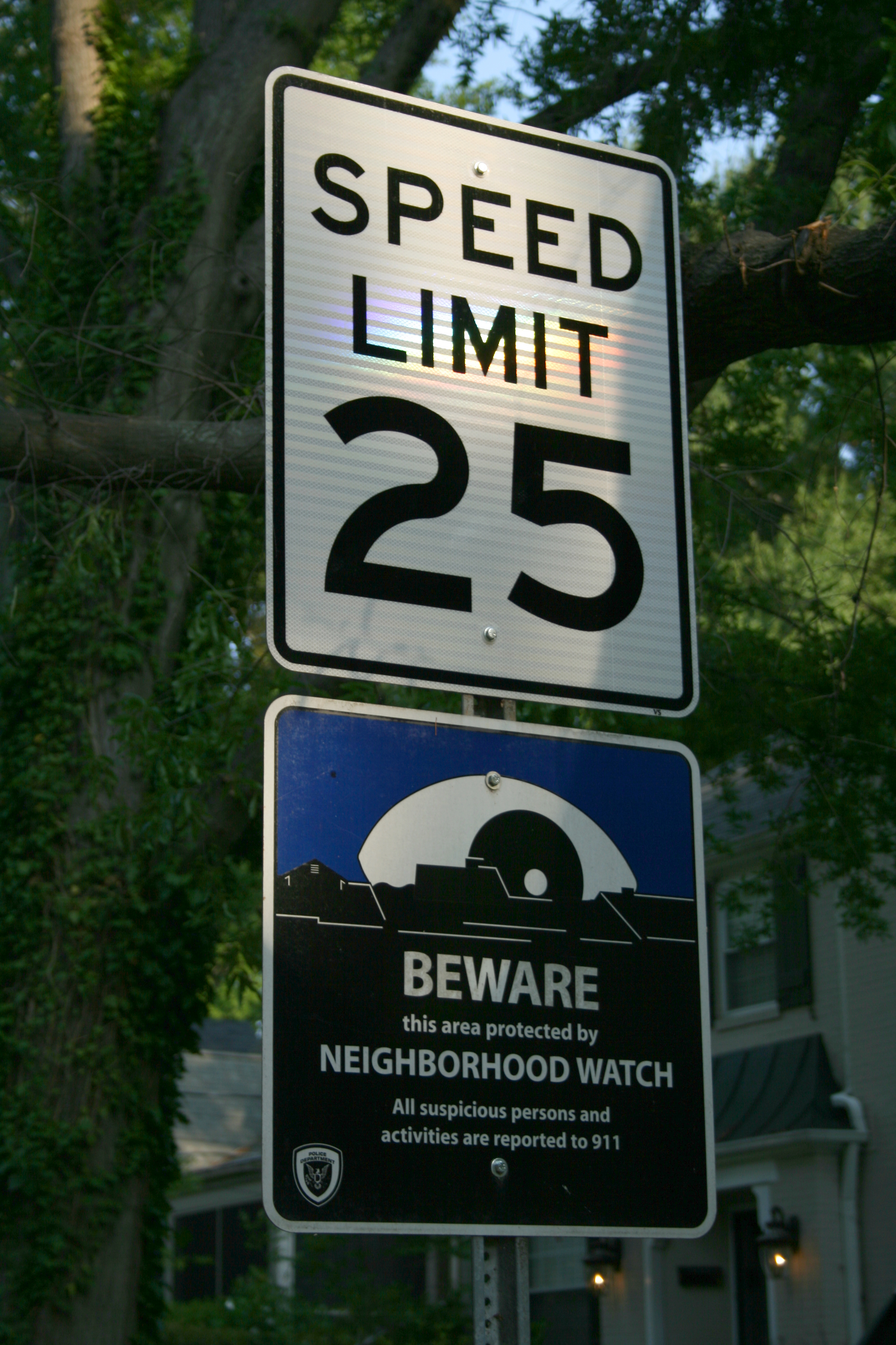 A speed limit sign and a neighbourhood watch sign in Trinity Park, Durham, North Carolina.